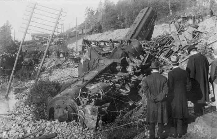 The train accident in Getå, Sweden, October 1, 1918, was the most serious in Swedish railway history. At least 42 people died.The locomotive is called F1200.